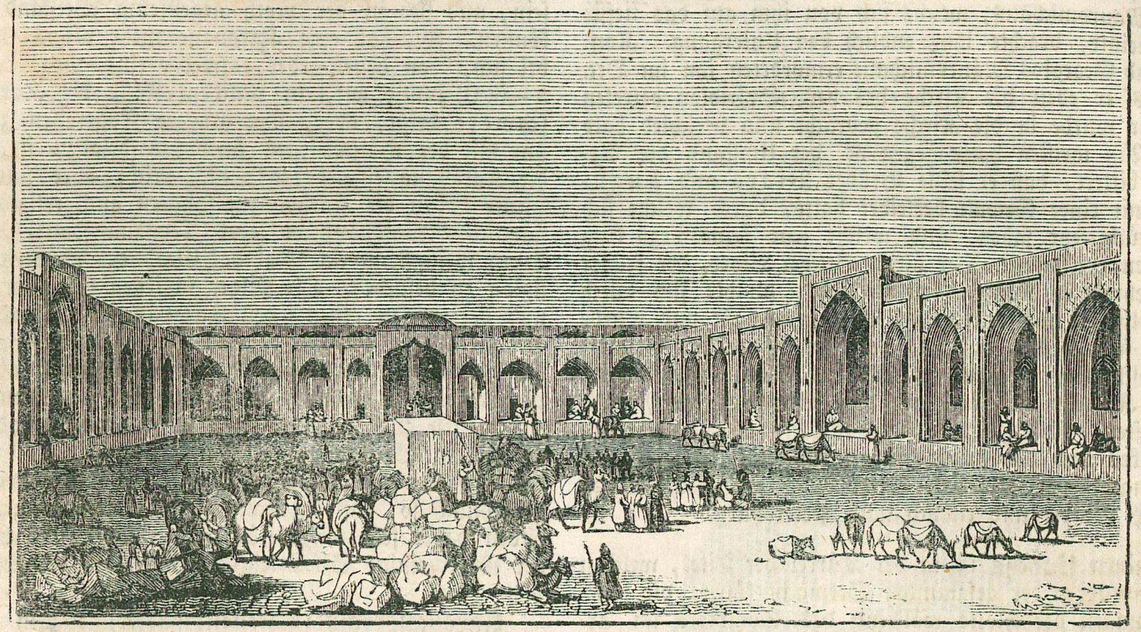 Drawing of a "Karavanserai" in Brokhaus Conversations-Lexikon 1838